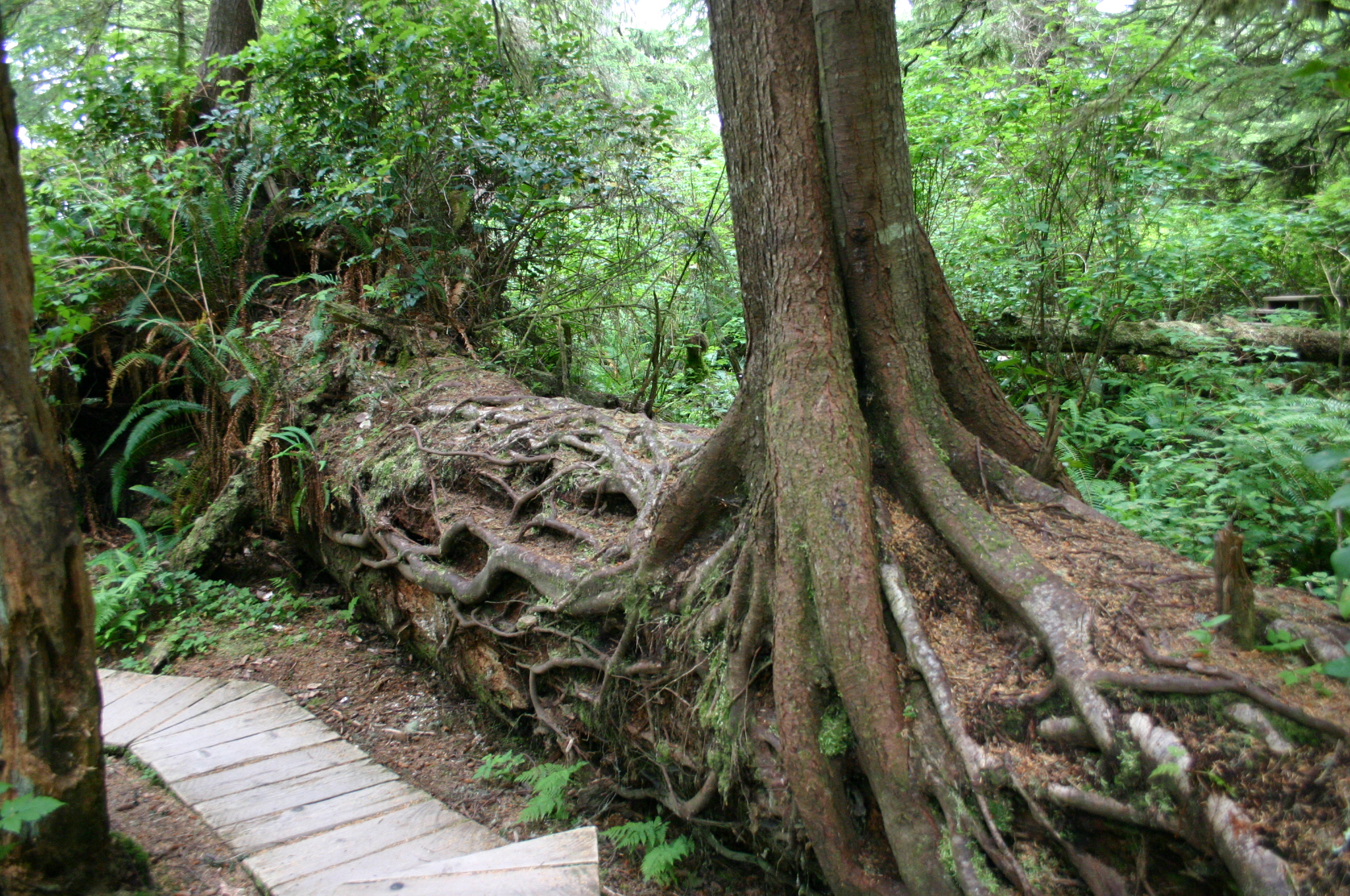 A fallen log serves as a nursery for a new Western hemlock tree, hence the name nursery log (also called nurse log).